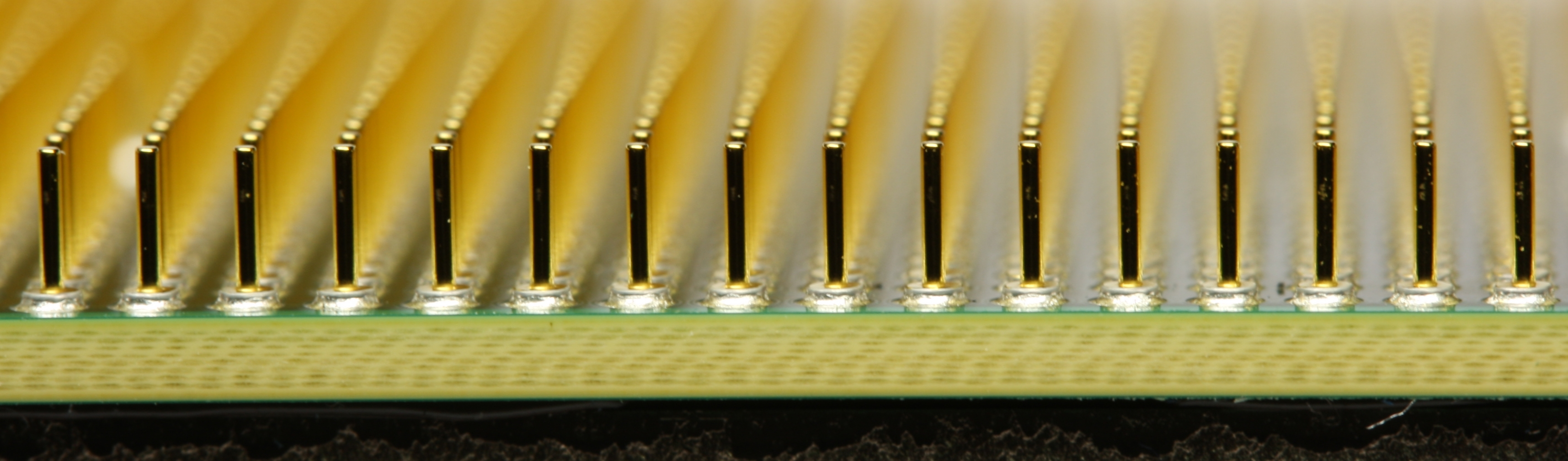 The pins of an AMD Phenom II X6 1090T (HDT90ZFBK6DGR) CPU with Pin grid array System